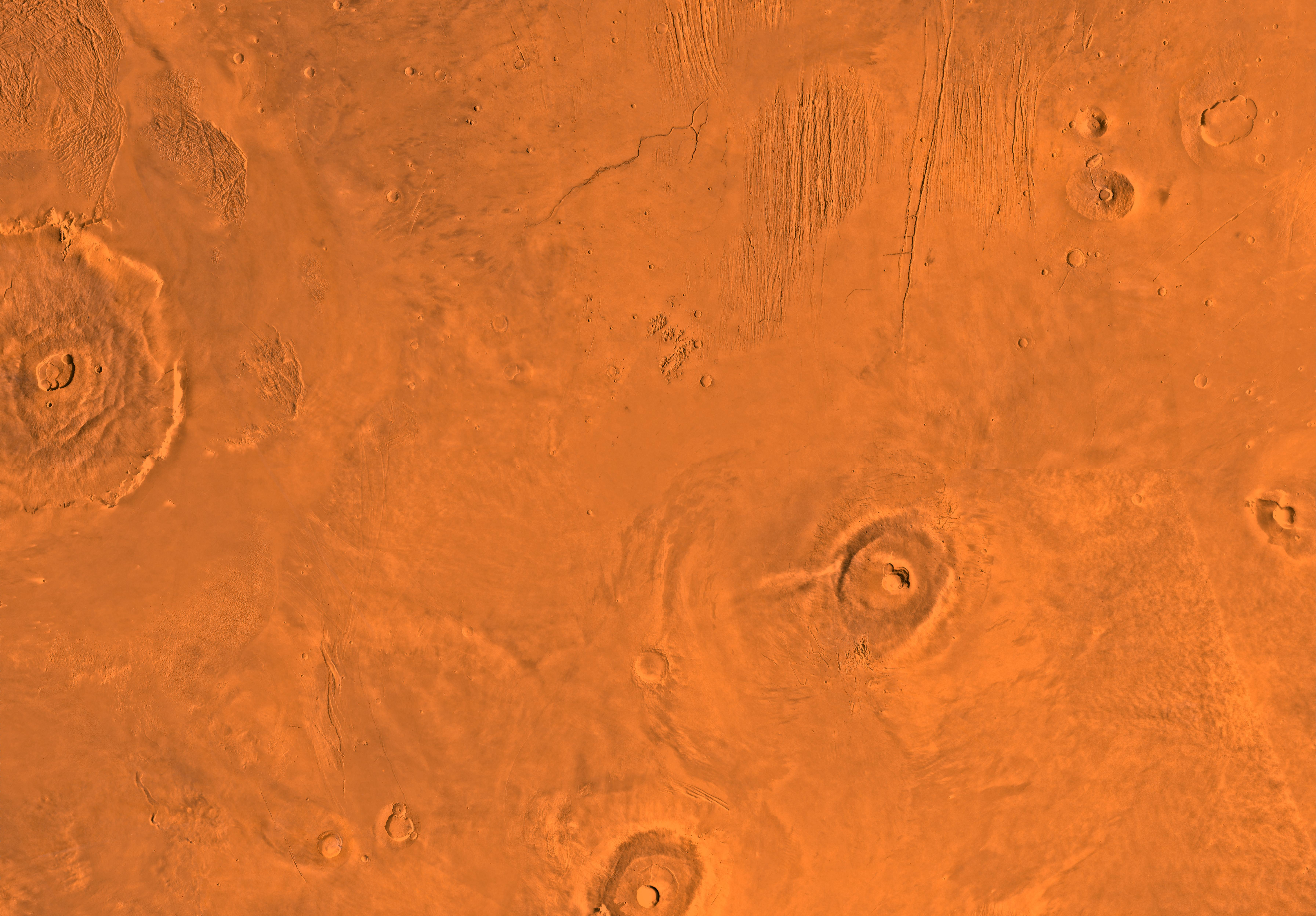 PIA00169: MC-9 Tharsis Region Mars digital-image mosaic merged with color of the MC-9 quadrangle, Tharsis region of Mars. Three of the four largest shield volcanoes on Mars--Olympus, Ascraeus, and Pavonis Montes--lie within the Tharsis quadrangle, together with several smaller shields. The north-central part is marked by highly faulted terrain of Ceraunius Fossae. Latitude range 0 to 30 degrees, longitude range 90 to 135 degrees.